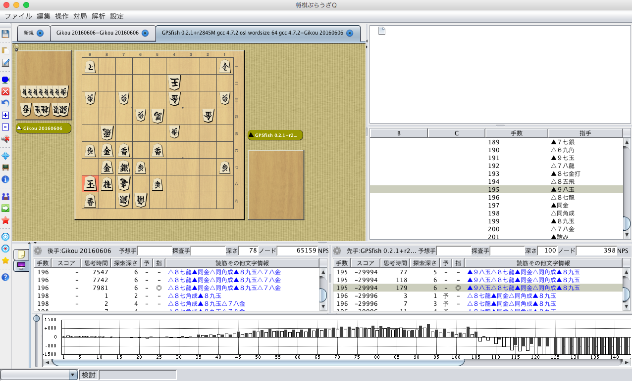 将棋ぶらうざＱ screenshot of a GPSFish engine vs 技巧 engine game